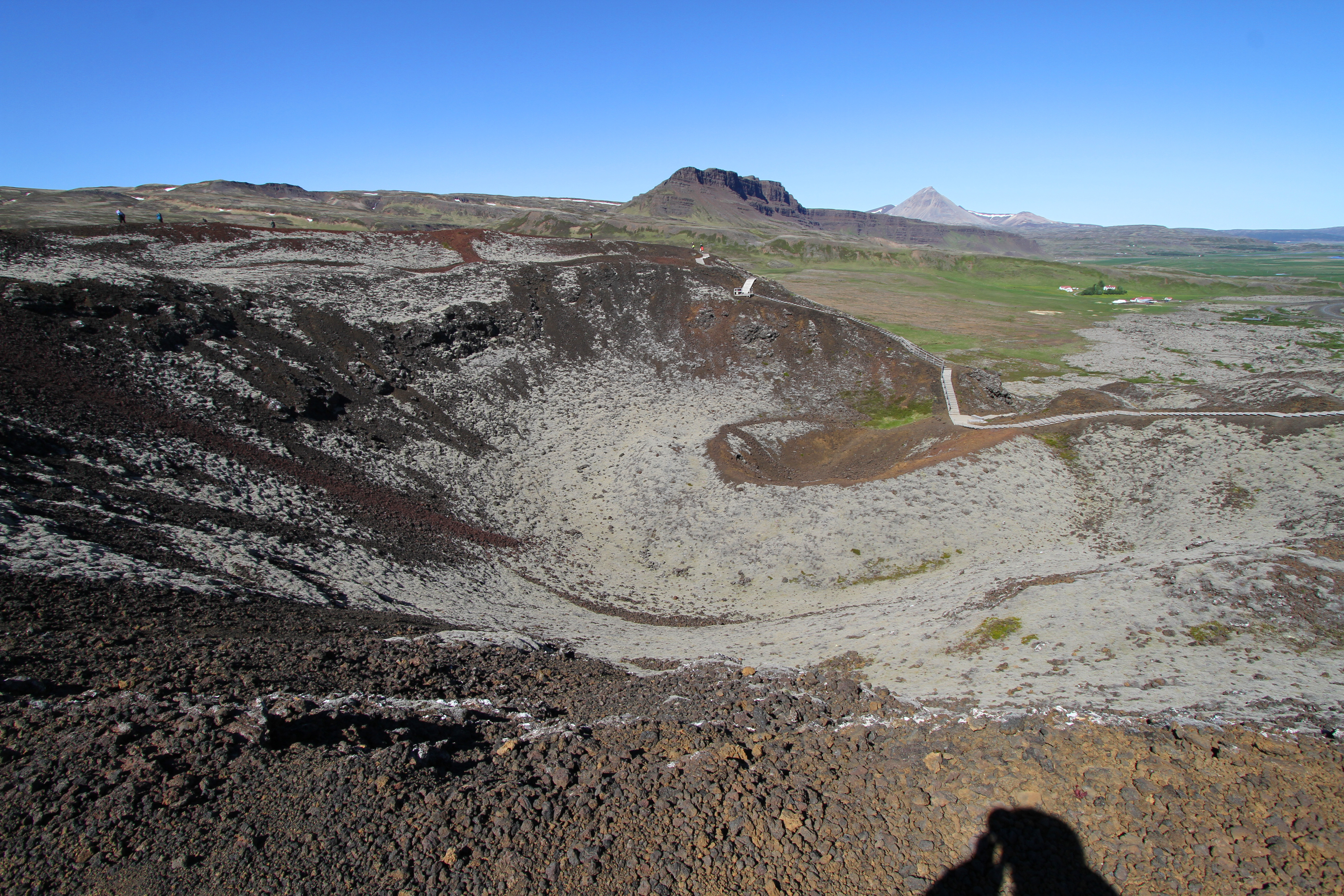 Grábrók volcanic field